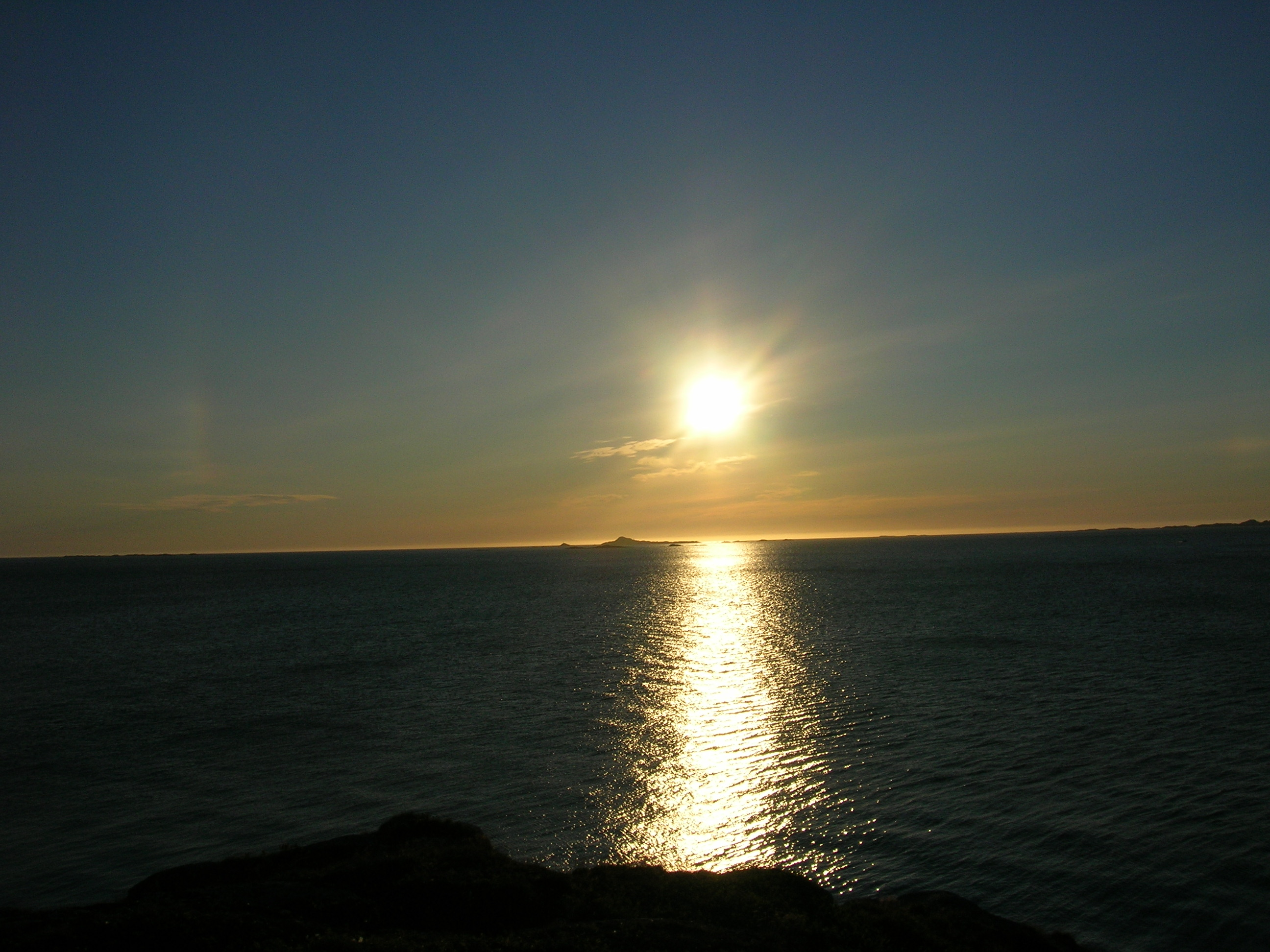 Lyngøya